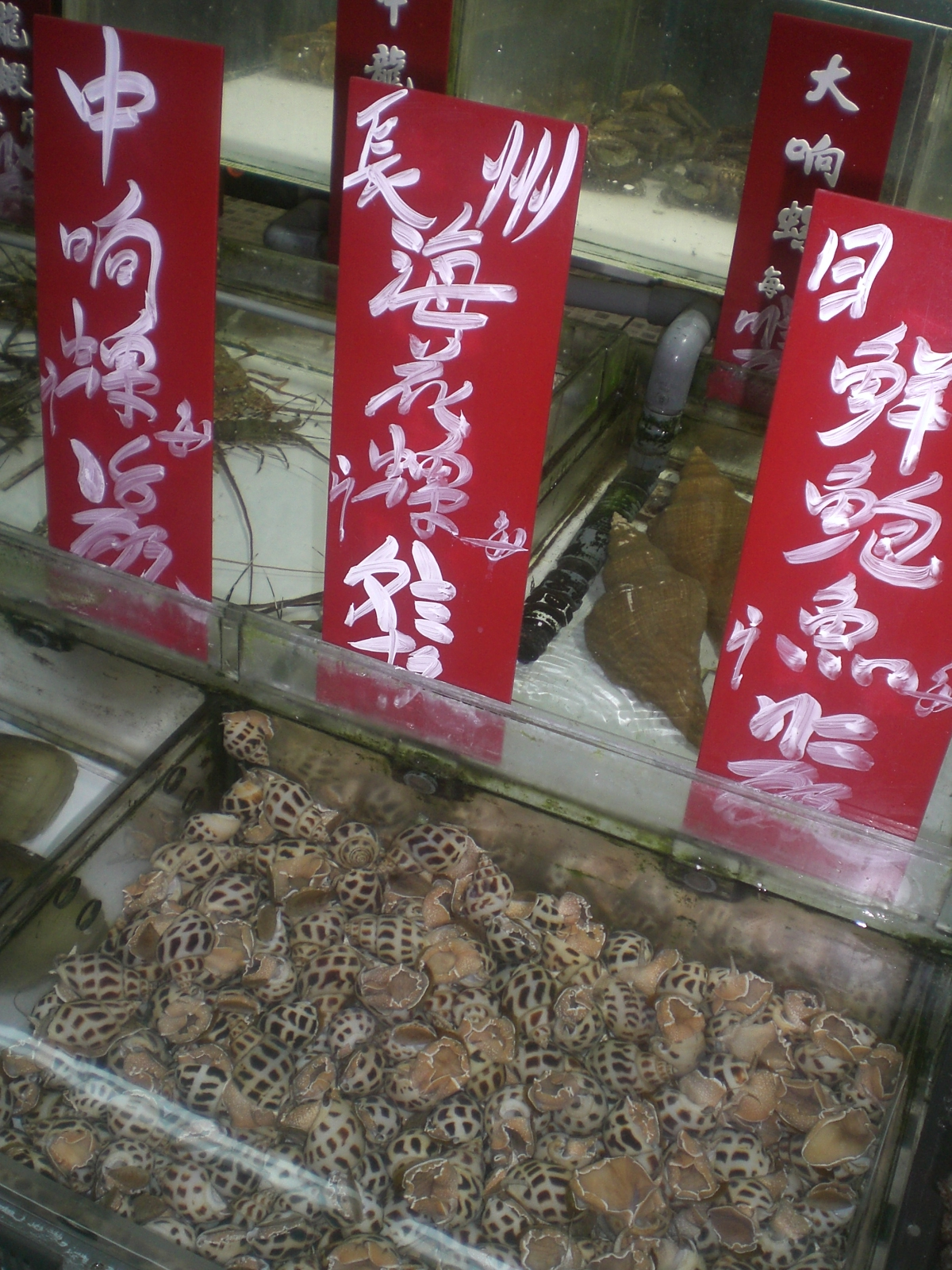 灣仔zh:德記號海鮮 中國數碼標價的 海鮮